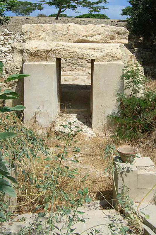 Alabaster tomb, Alexandria, Egypt